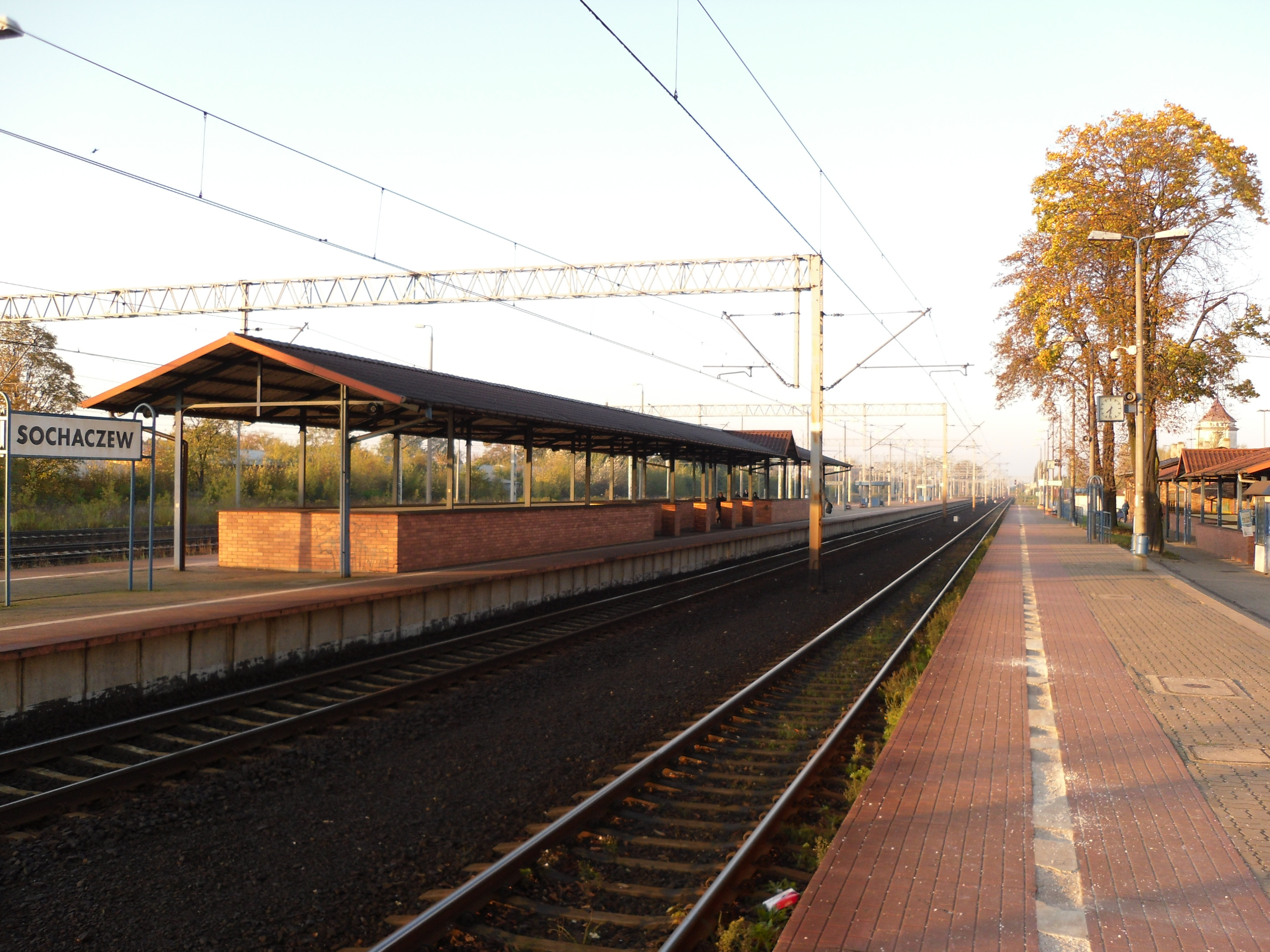 Sochaczew - platforms at the train station